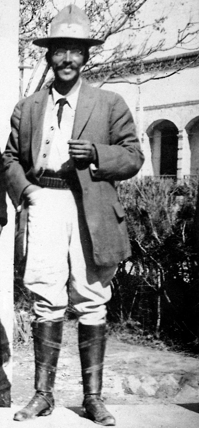 The last four men on the righthand side are, from left to right: Mexican revolutionaries General Rodolfo Fierro, Pancho Villa, General Toribio Ortega and Colonel Juan Medina.